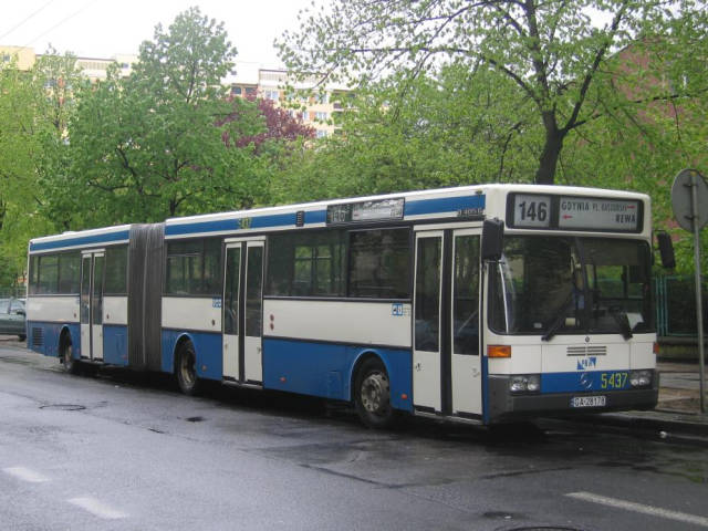 Mercedes-Benz O405G bus (#5437) in Gdynia, Poland. Built 1987, PKA Gdynia operator.